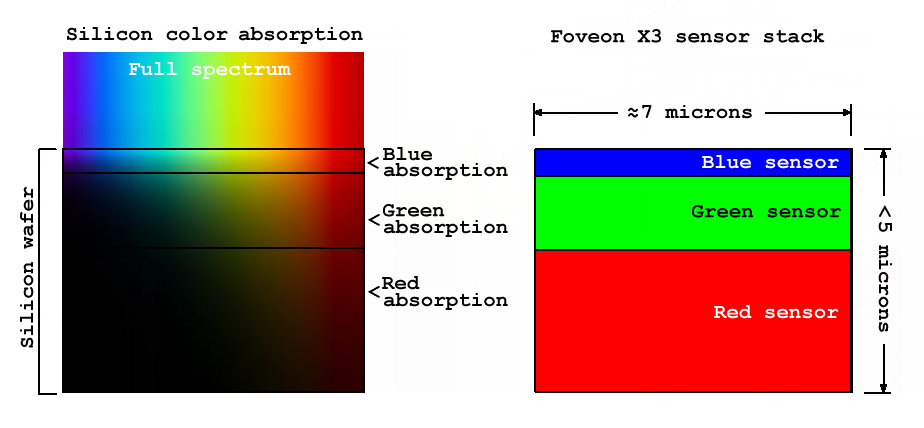 Dicklyon & Anoneditor - self created graphic.